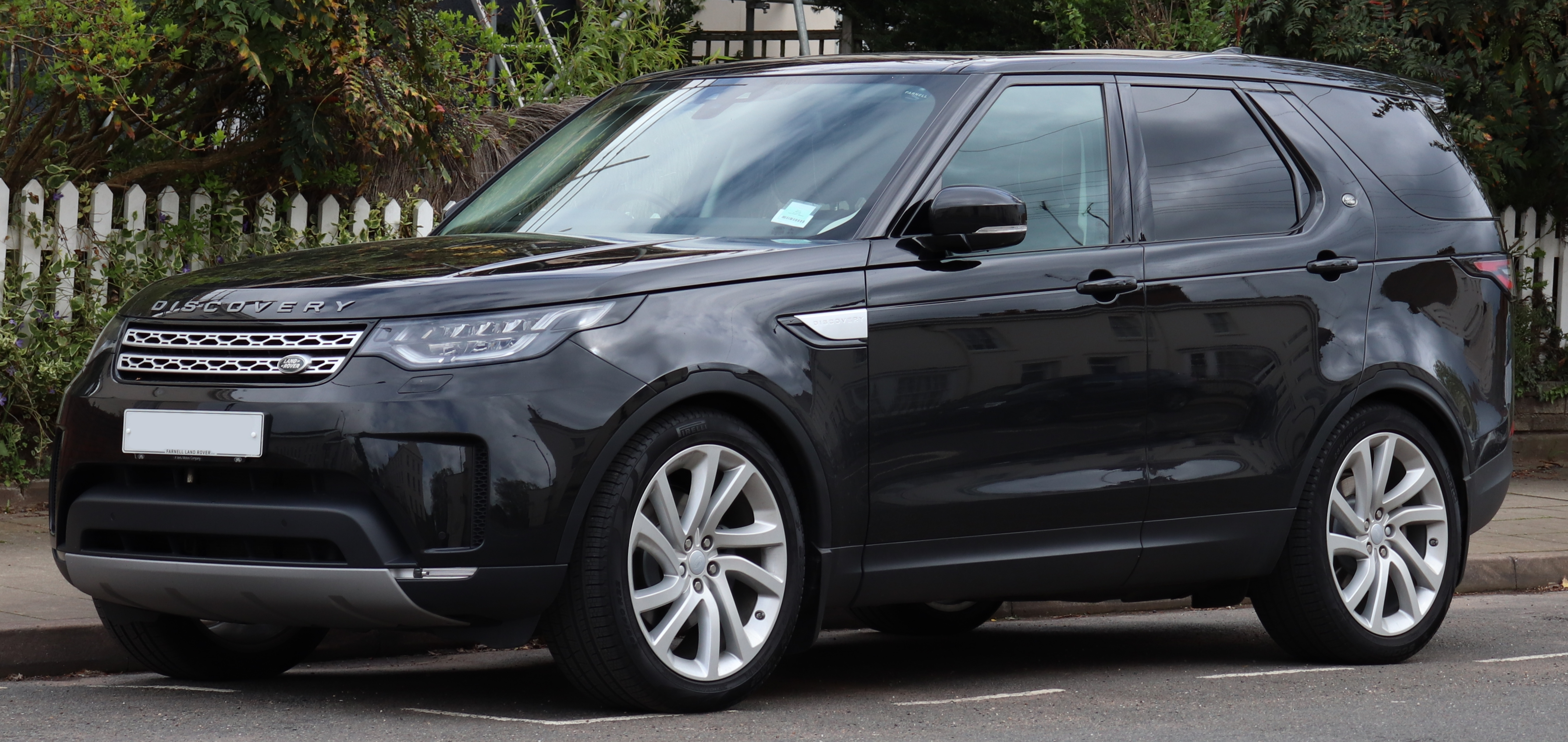 2017 Land Rover Discovery HSE TD6 Automatic 3.0 Front Taken in Leamington Spa